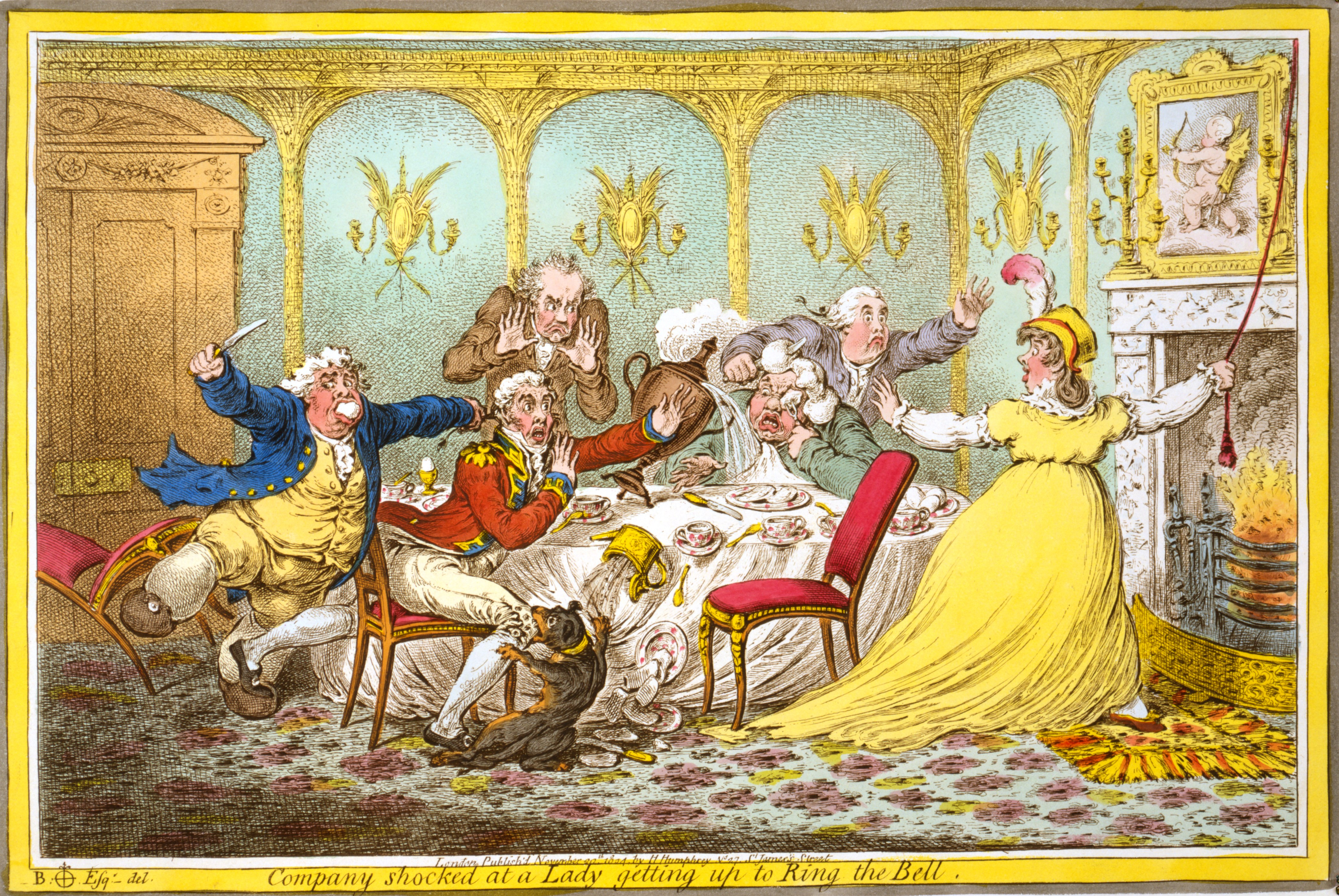 Company shocked at a lady getting up to ring the bell / B., Esq, del. SUMMARY: A violent disturbance in a breakfast parlor. A woman stands to ring the bell-pull while the five men at the table react in horror, stumbling and knocking over items on the table as they attempt to stop her. The men are probably suitors of the woman. MEDIUM: 1 print : etching, hand-colored. CREATED/PUBLISHED: London : H. Humphrey, 1805 Nov. 20. According to Wright & Evans, Historical and Descriptive Account of the Caricatures of James Gillray (1851, OCLC 59510372), p. 473, this is "A widow and her suitors, who seem to have forgot their manners in the intensity of their admiration."